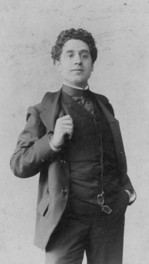 Léonce Perret's photo.